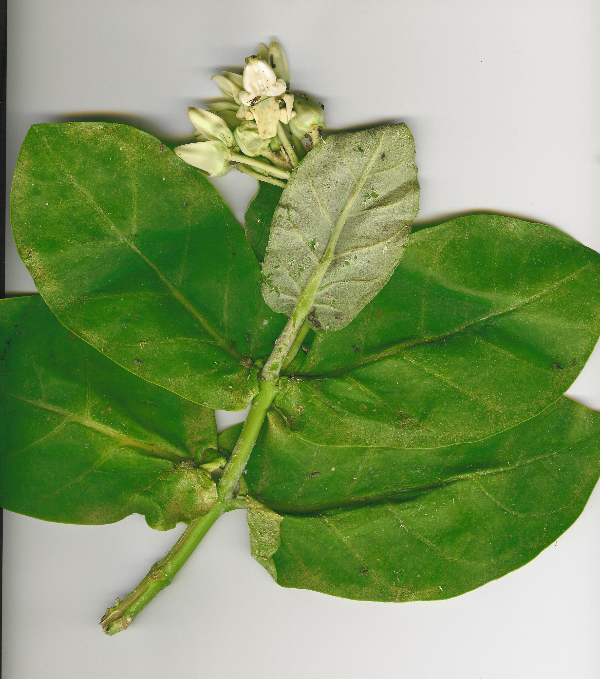 Calotropis gigantea (branch). Location: Molokai, Papohaku Beach